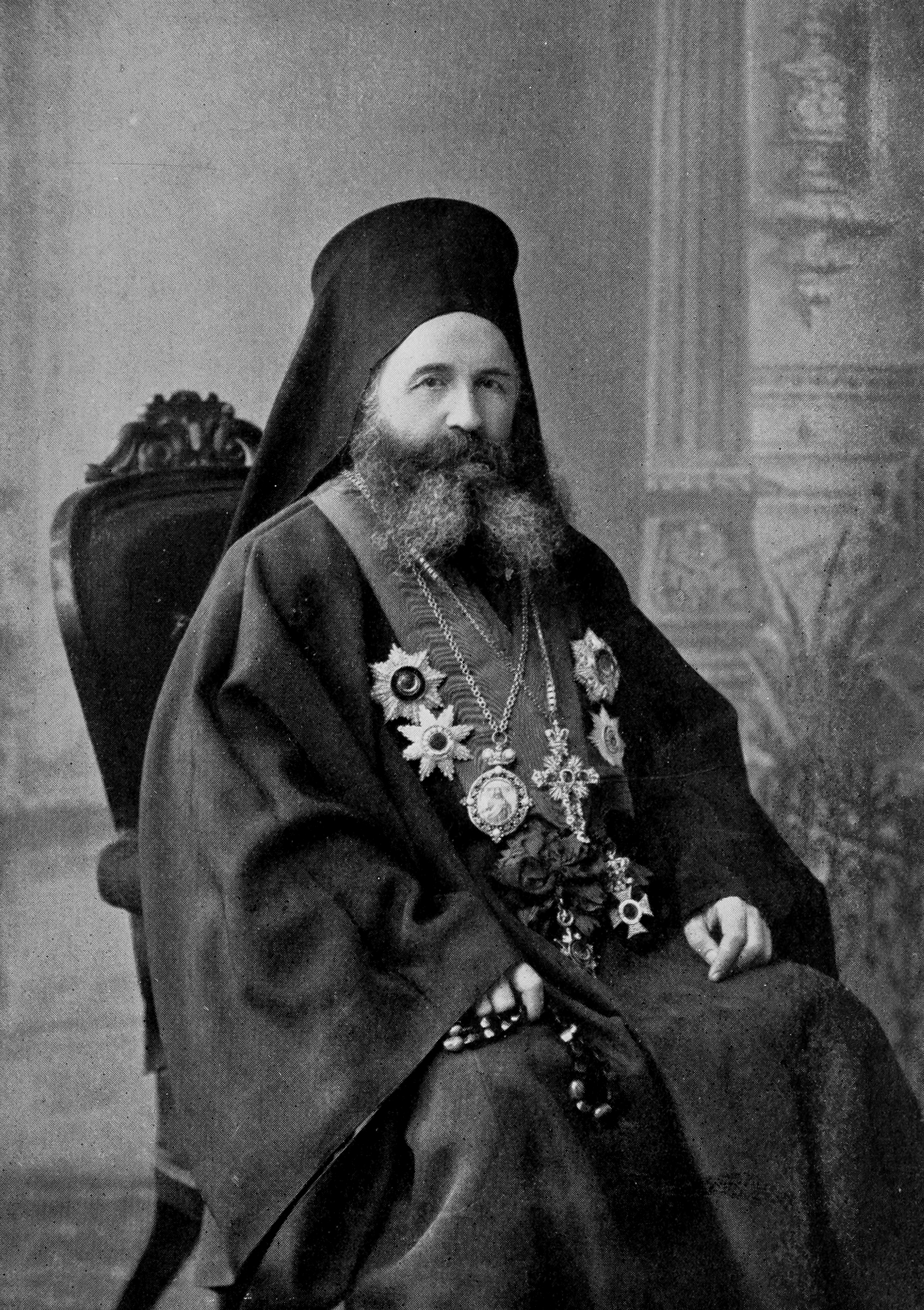 Joseph I, the Bulgarian exarch (1910)